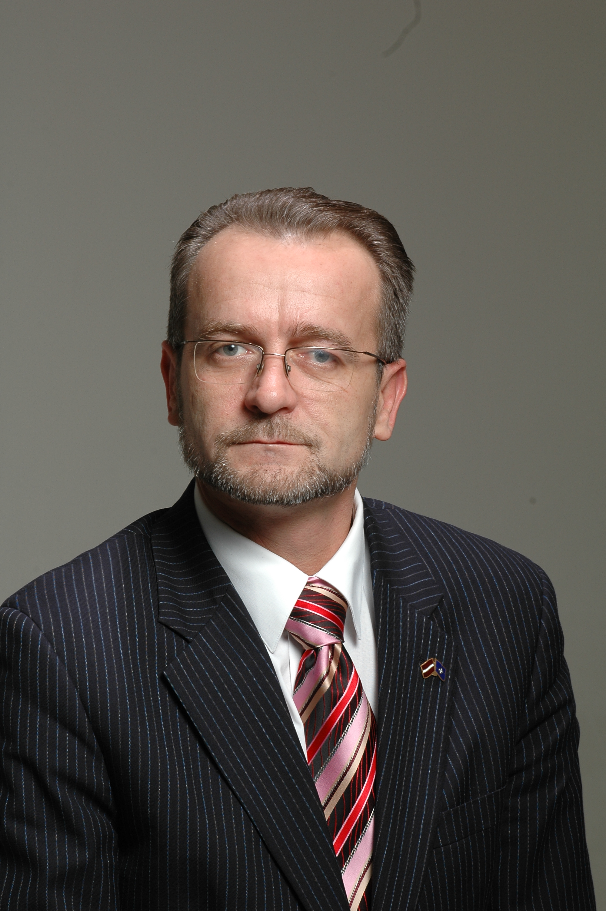 Deputy of the 9th Saeima Dzintars Rasnačs.